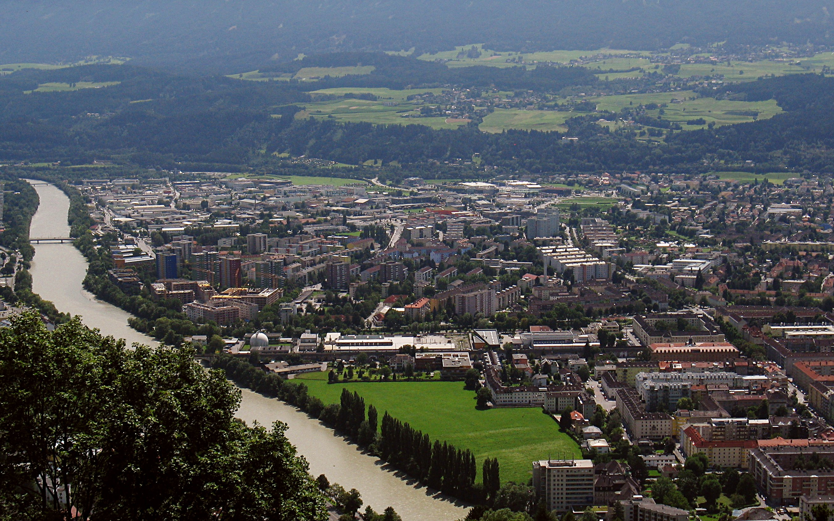 Innsbruck, Reichenau quarter, seen from Hungerburg